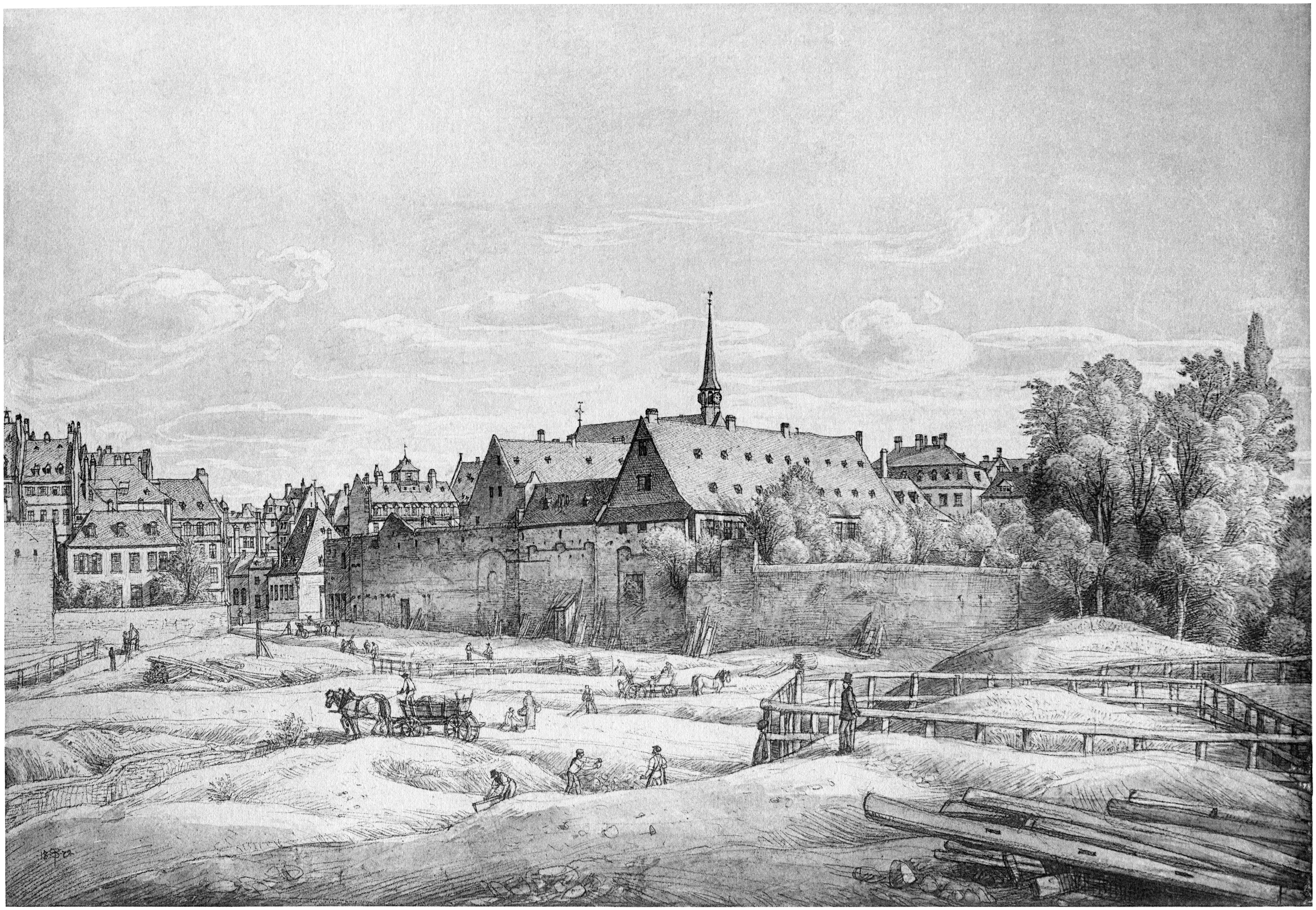 Frankfurt on the Main: The terrain of the new streets from the Rossmarkt (Horse Markt) and the Hirschgraben (Stag Ditch) to the railway stations.